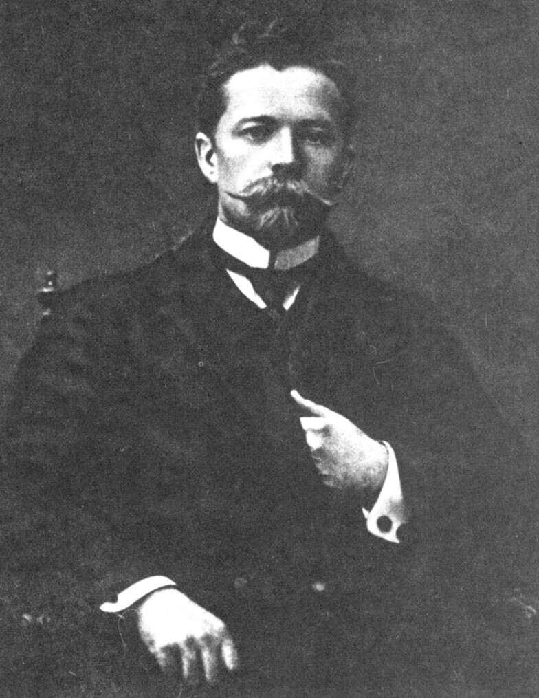 Eliziejus Draugelis, physician, member of Constituent Assembly of Lithuania and Lithuanian Seimas, minister of interior